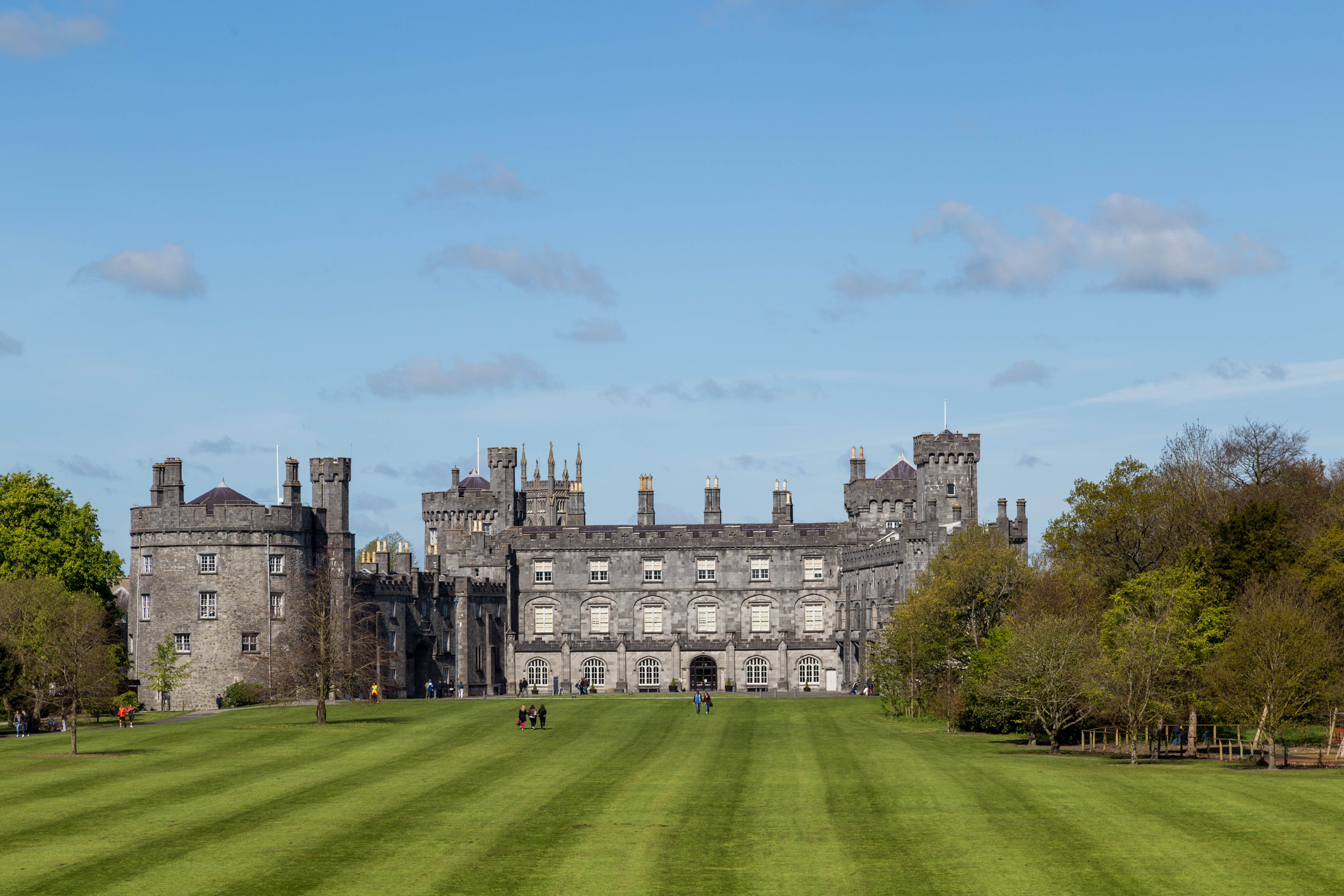 Kilkenny Castle